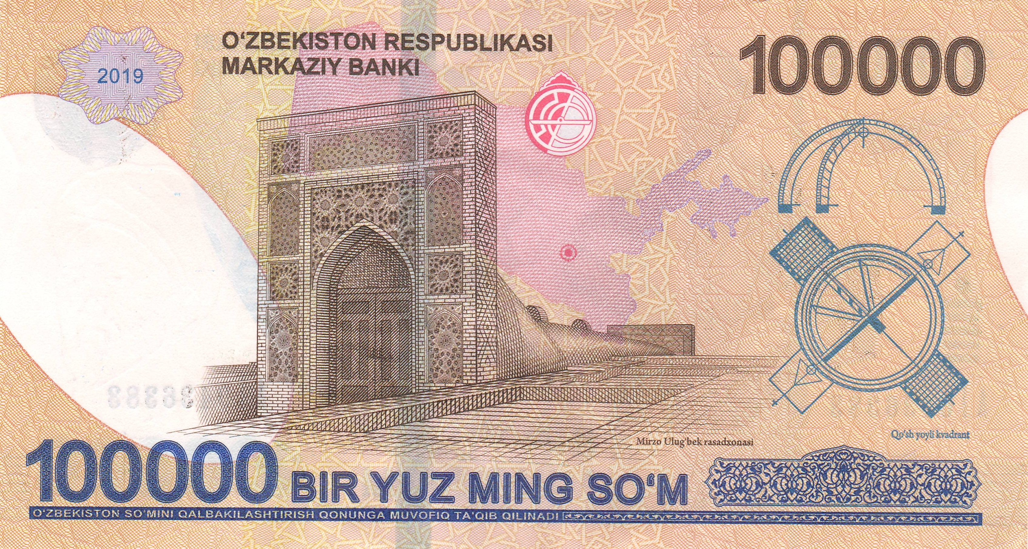 100 000 soms of Uzbekistan (2019)